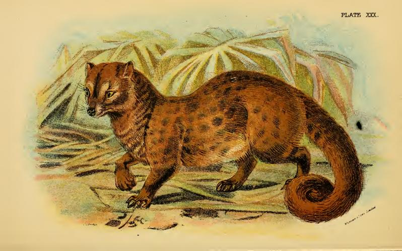 Common Palm-Civet / Paradoxurus hermaphroditus